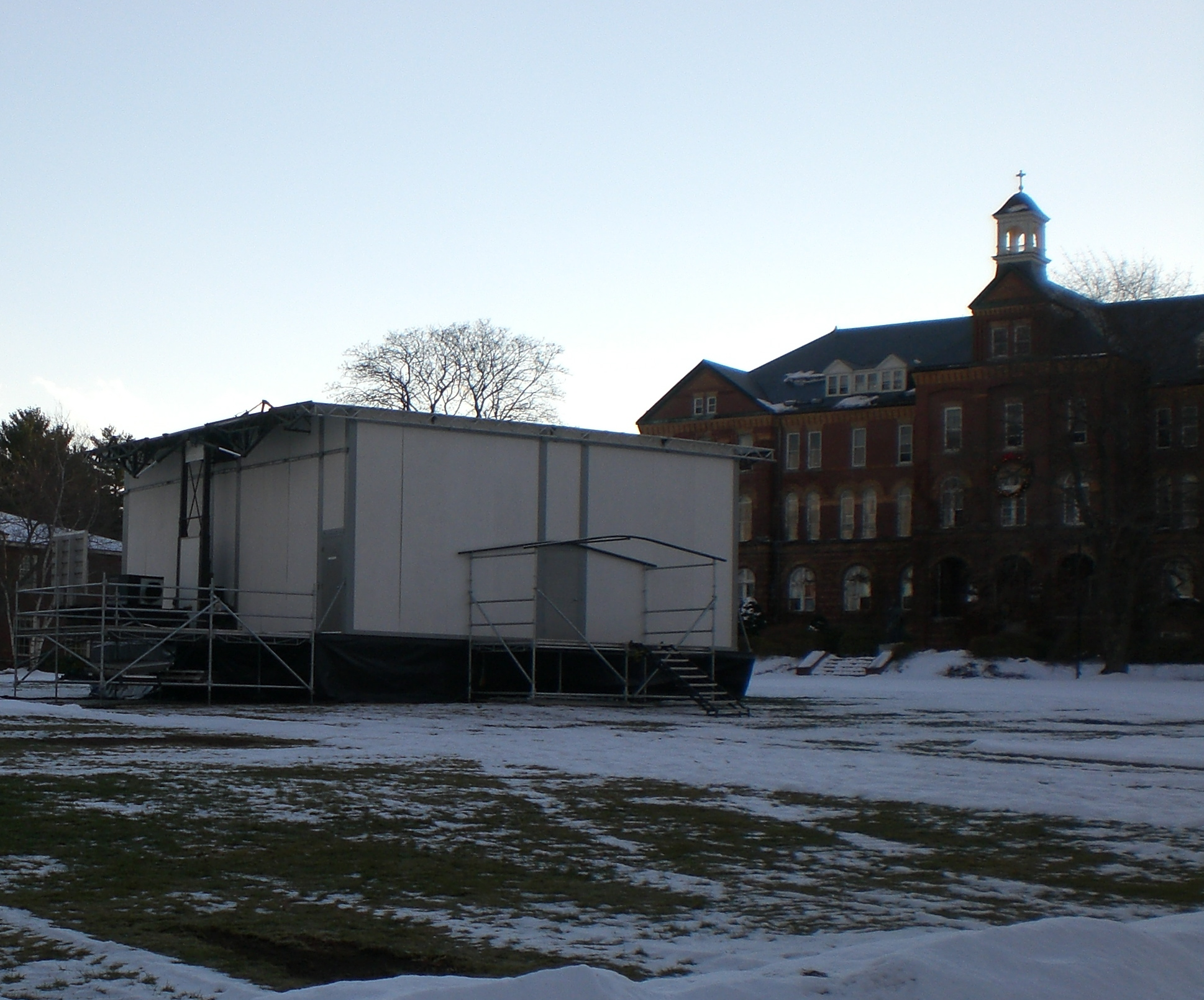 The "FoxBox" on the Quad at Saint Anselm College